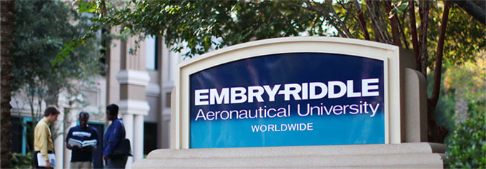 Picture Outside Worldwide Headquarters